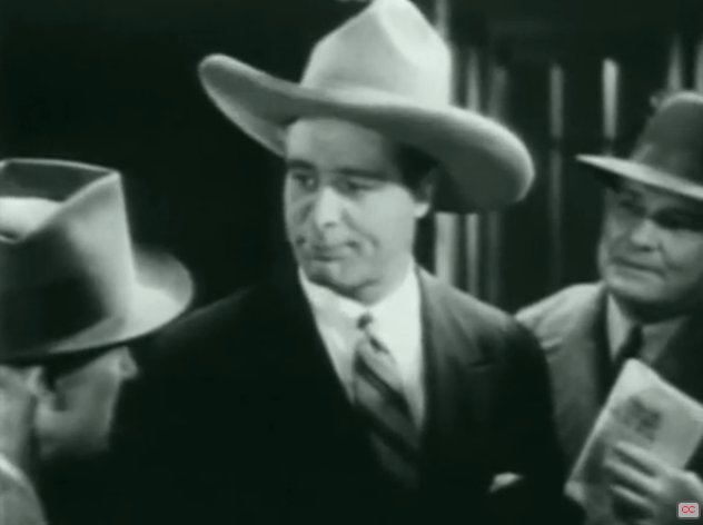 Screen capture showing Lou Gehrig in the film Rawhide wearing a white cowboy hat. From approximately the 1:56 mark of the movie.